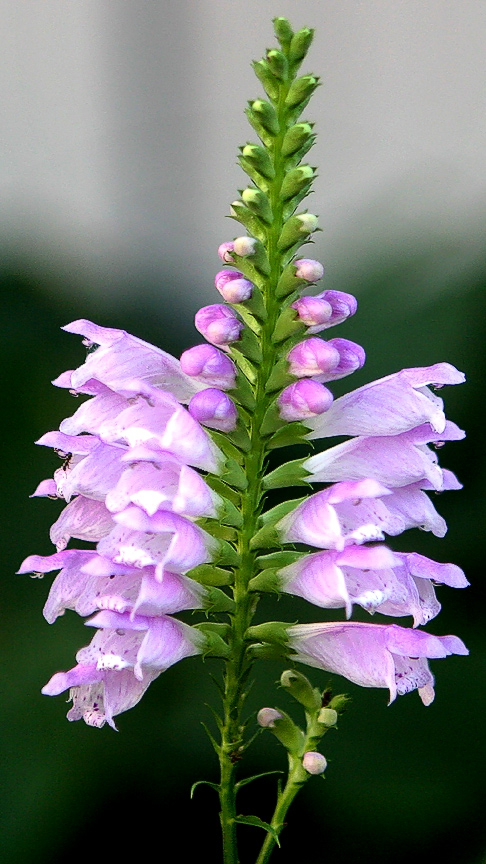 Self made picture of Physostegia virginiana taken 2007, by Paul Henjum